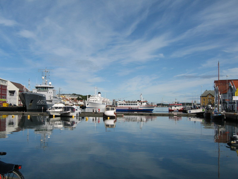 Beautiful view of Stavanger harbour in direction to fish market, Andrea Heck, August 2006